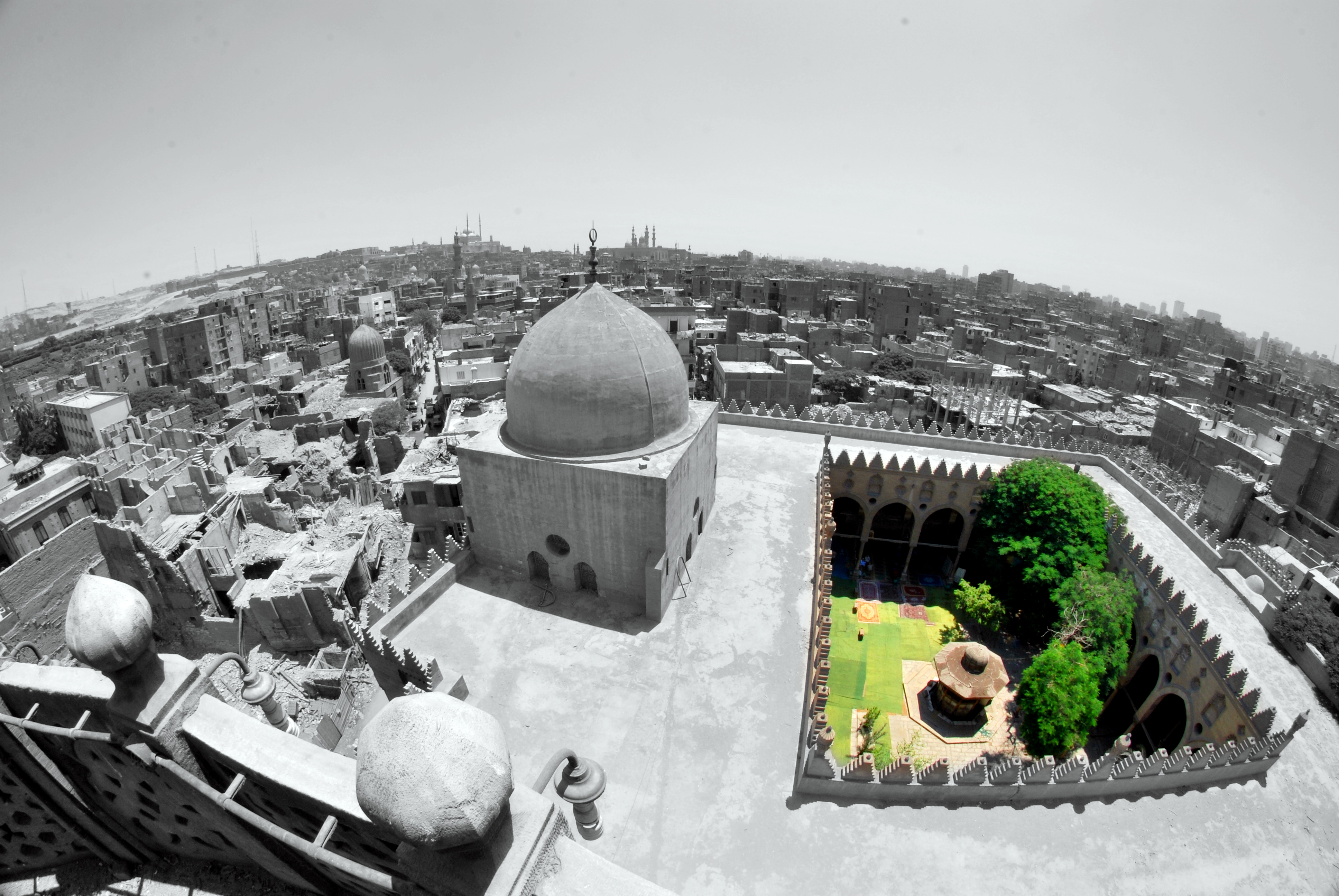 Mosque in Al-Darb Al-Ahmar District of Cairo, Egypt